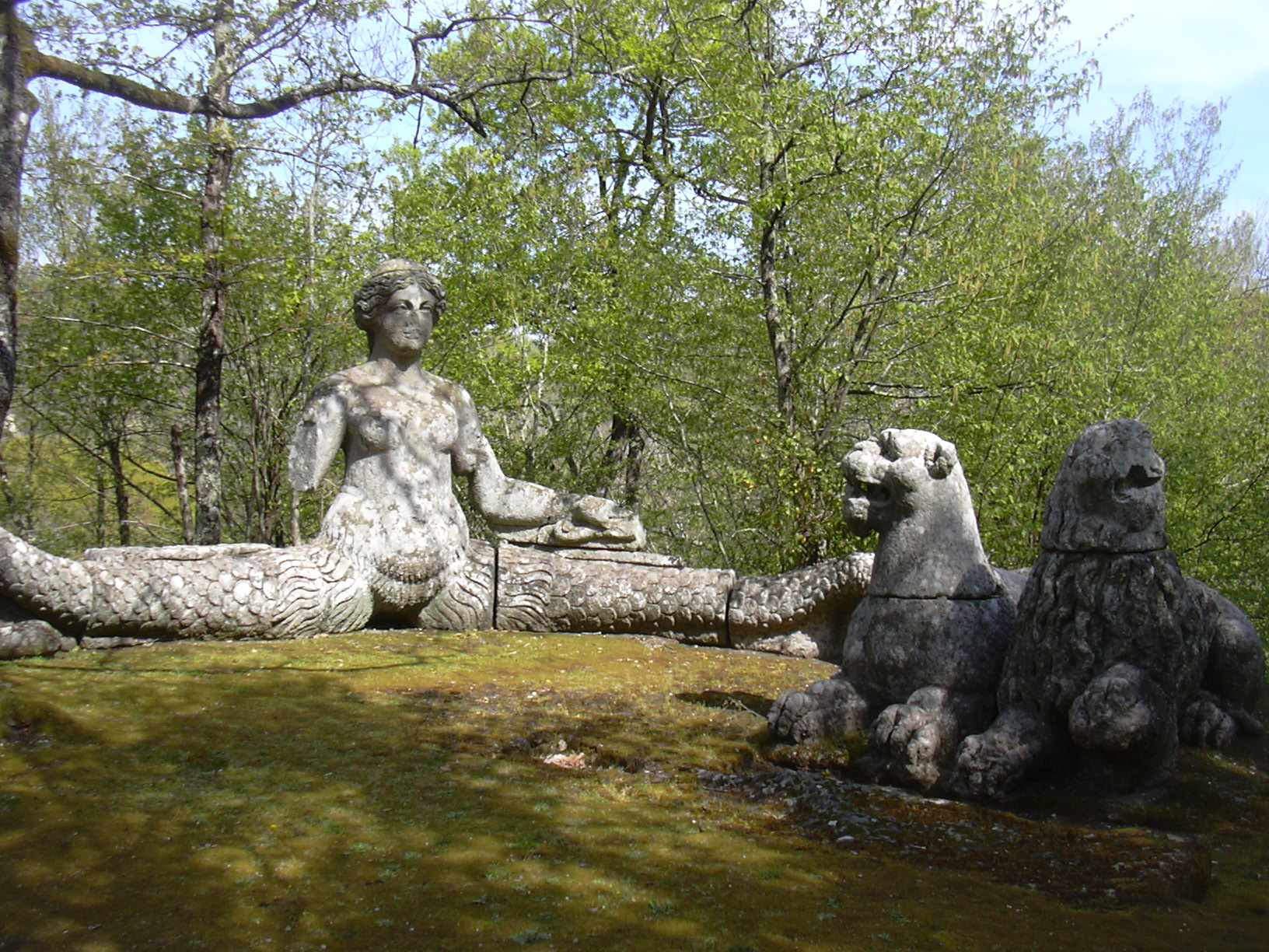 Sacro Bosco of Bomarzo, Echidna and two lions